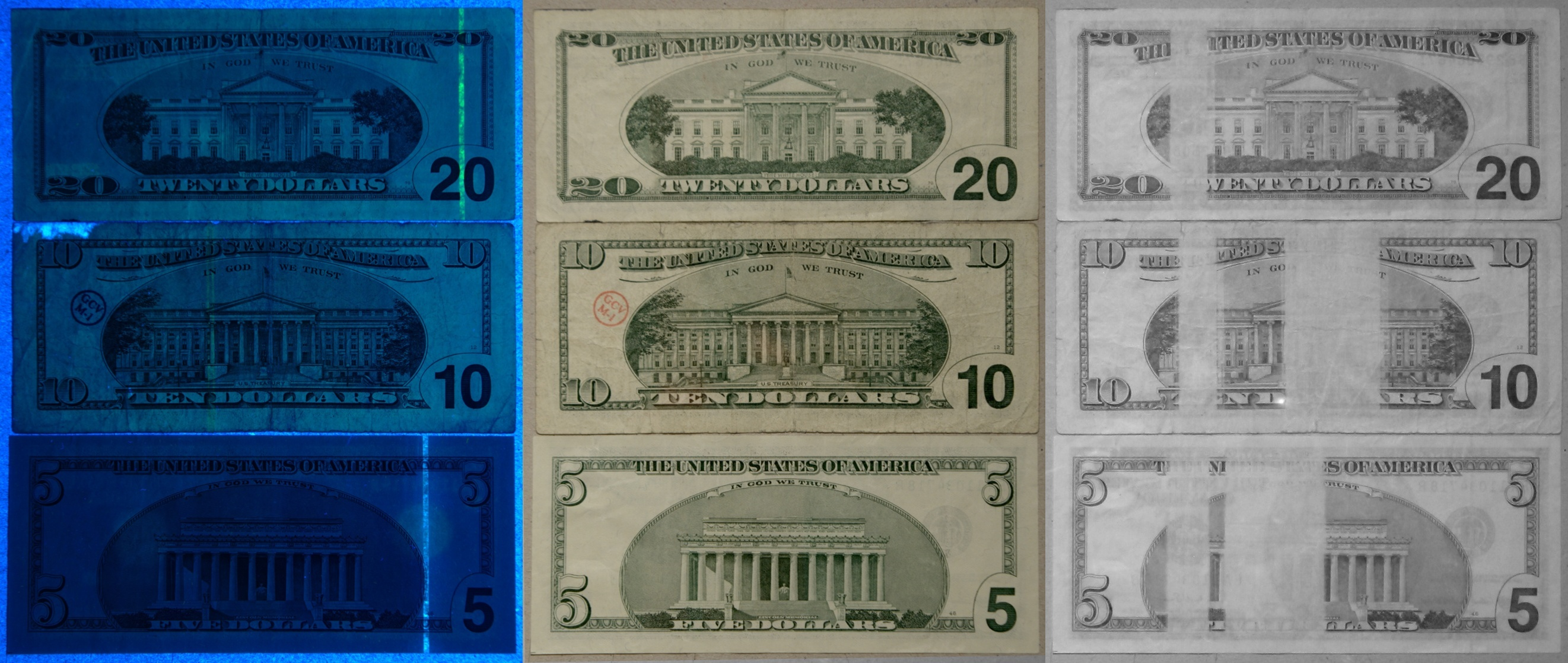 UV taken with a visible light camera, IR taken with incandescent light and a Wratten 87 filter on a modified camera.